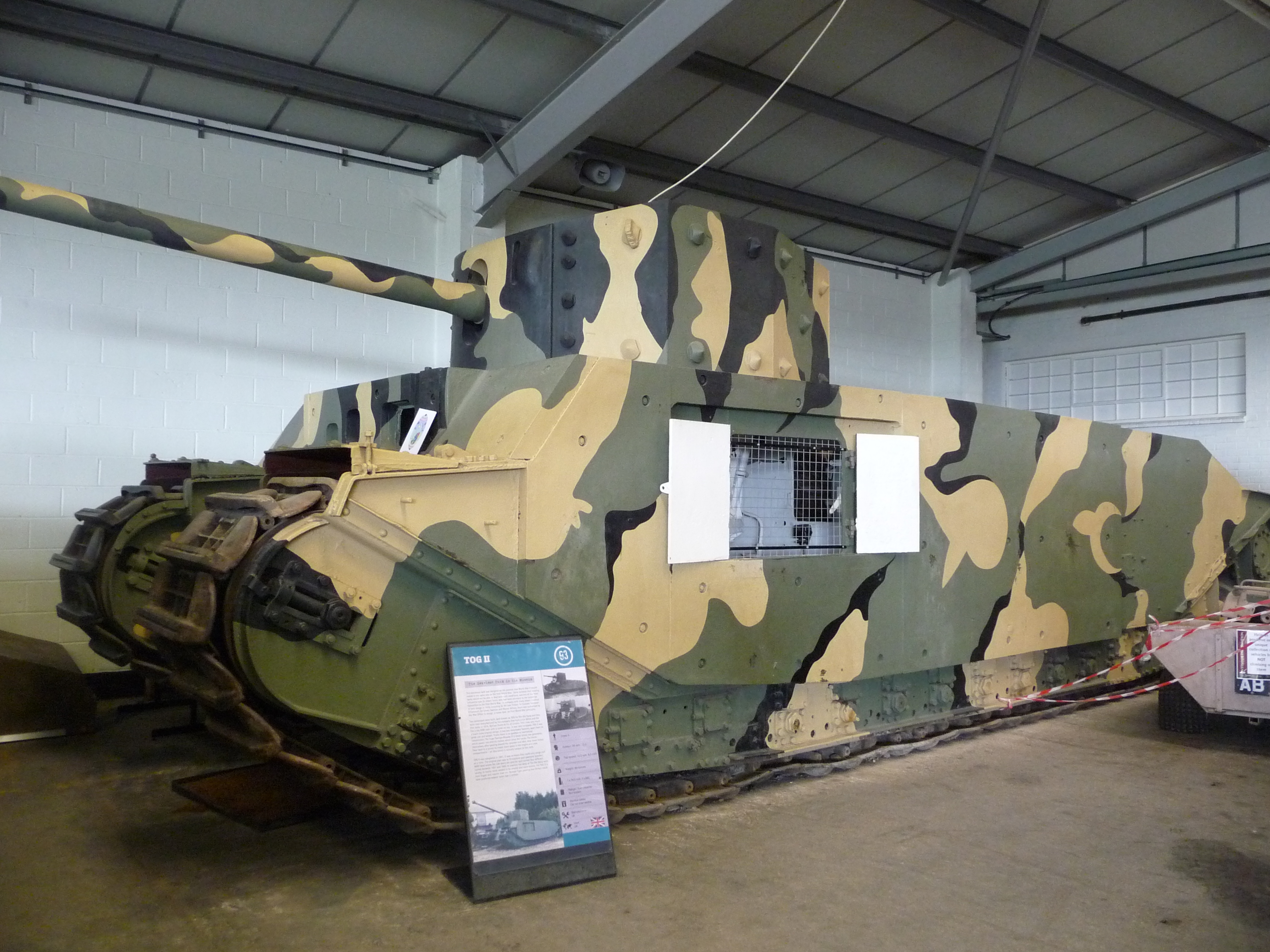 This beast weighs 80 tons!